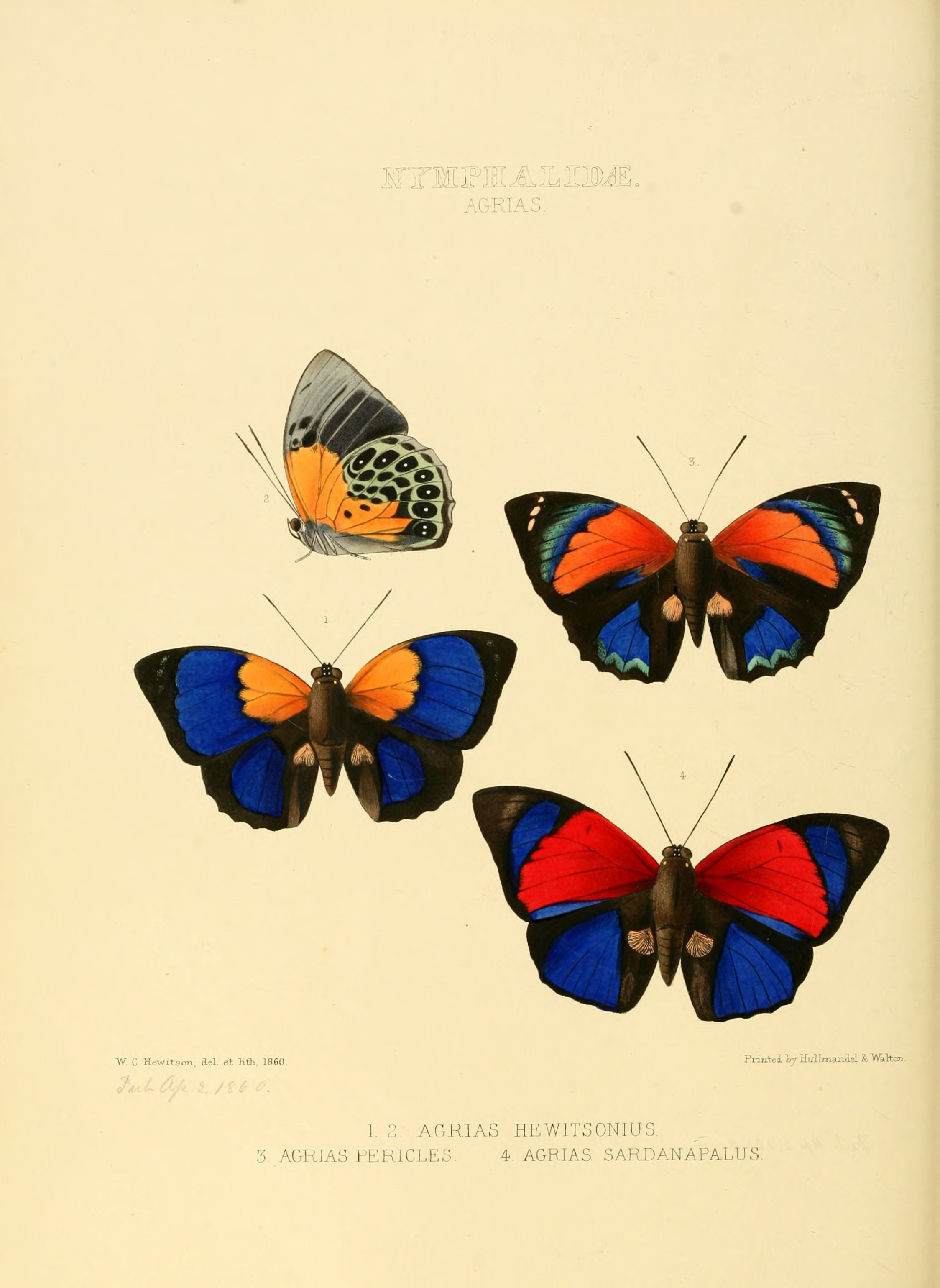 Plate: Agrias Agrias hewitsonius. Figs. 1, 2. Accepted as Agrias hewitsonius Bates, 1860. Agrias pericles. Fig. 3. Accepted as Agrias amydon Hewitson, 1854. Agrias sardanapalus. Fig. 4. Accepted as Agrias claudina (Godart, 1824).